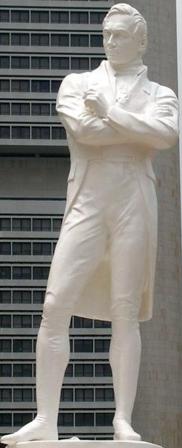 Crop of Stamford Raffles statue.jpg Sir Stamford Raffles was the first Westerner to discover Singapore in 1819, and subsequently became the first governor of the entrepot city. Today a statue of him is erected at the spot where he first landed on Singapore. Photo taken by Formulax on March 23, 2005. © 2005 Formulax. Released uner Creative Commons License(see below).